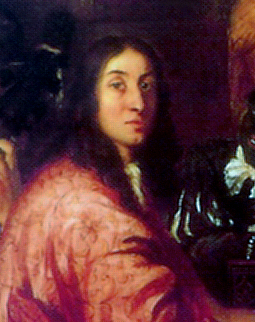 Johann Adam Reincken in the picture "Domestic Music Scene" of Johannes Voorhout, 1674.